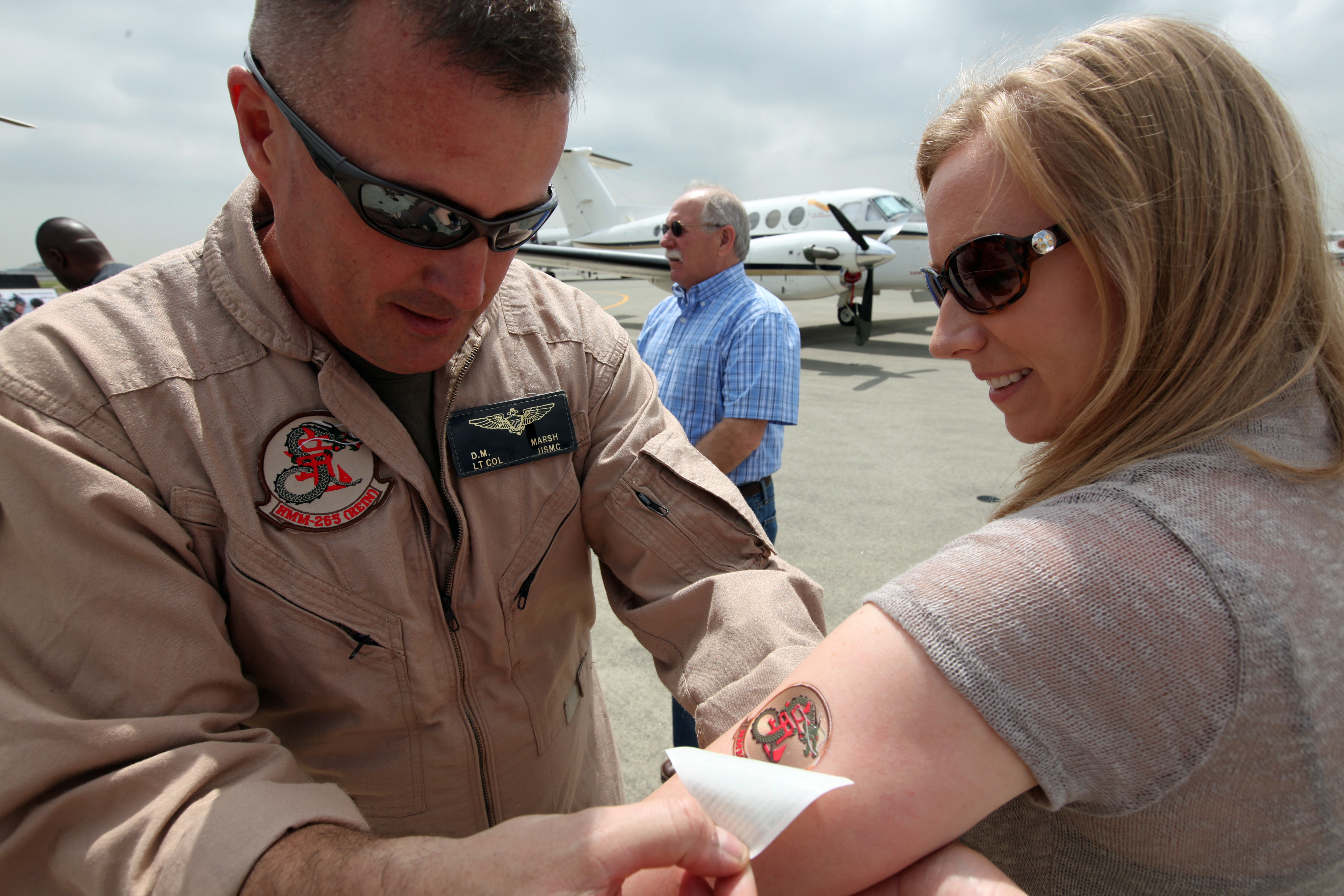 Lieutenant Col. Damien "Faulkner" Marsh, commanding officer of Marine Medium Helicopter Squadron 265 (REIN), 31st Marine Expeditionary Unit, applies a temporary Dragon tattoo to a fan during a static display of CH-46E Sea Knight helicopters at the Atsugi Air Show, Atsugi Naval Air Facility, Japan, April 28. The Marines' participation in the event comes one year after their assistance to Japanese tsunami victims during Operation Tomodachi. The 31st MEU is the United States' expeditionary force in readiness for the Asia Pacific region.